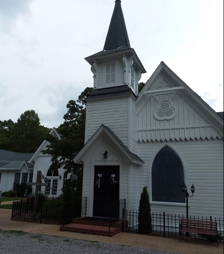 Former Buford Road site of Bon Air Presbyterian Church